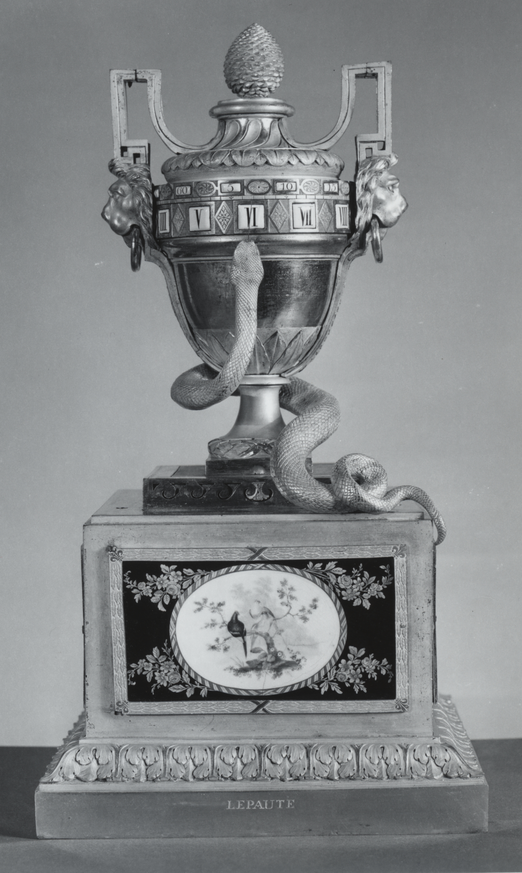 A serpent indicates with its tongue the hours and minutes on the bands revolving around the urn. Clockmaker Jean-André Le Paute began to work for Louis XV in 1751 and eventually made clocks for a number of royal châteaux. This clock demonstrates how Sèvres porcelain plaques were mounted in various furniture forms during the 1770s and 80s. The porcelains bear the date-letter for 1774.